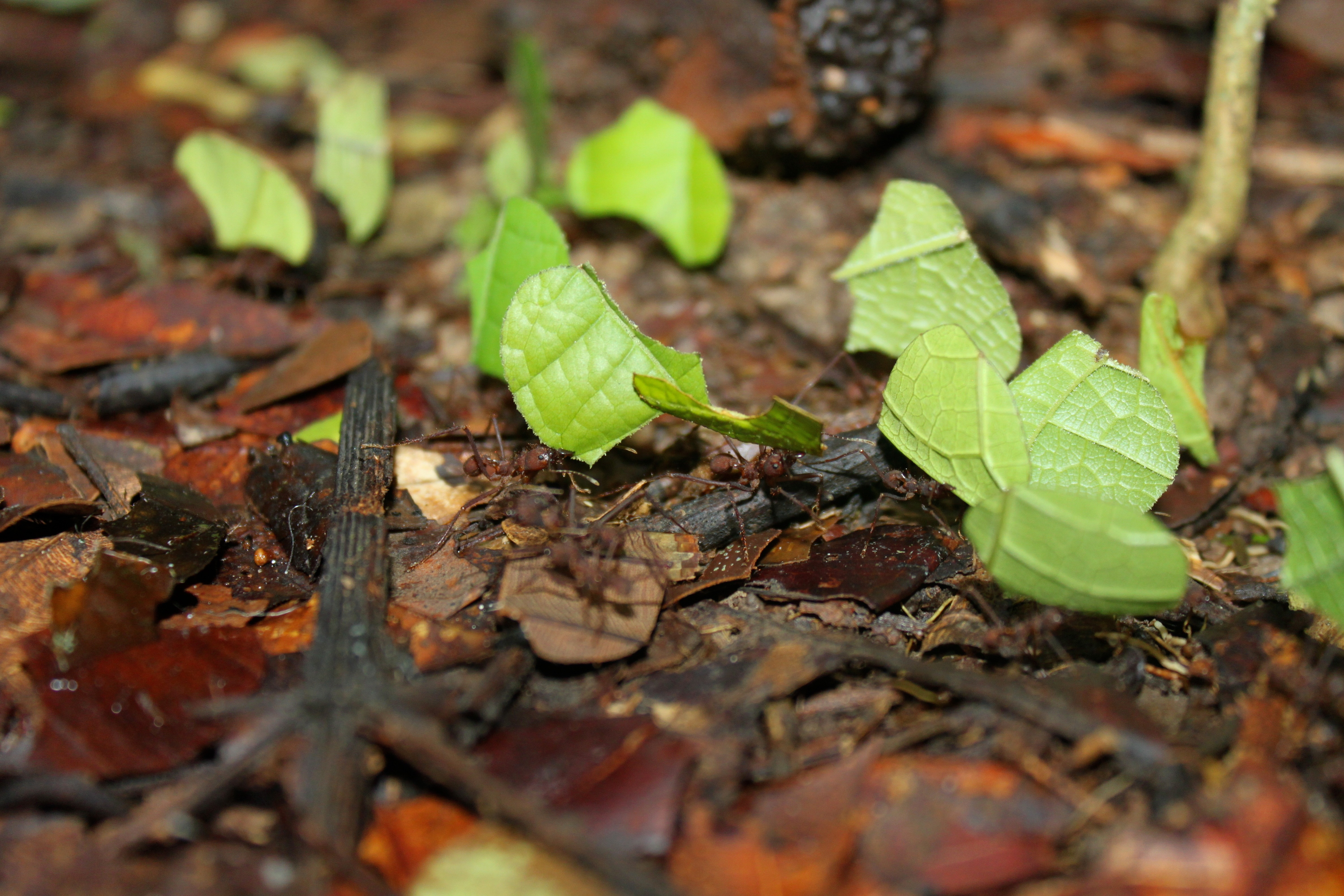 Tupara Aruu: We went on an awesome hike through the jungle that evening and saw Leaf-cutter Ants. My favorite!